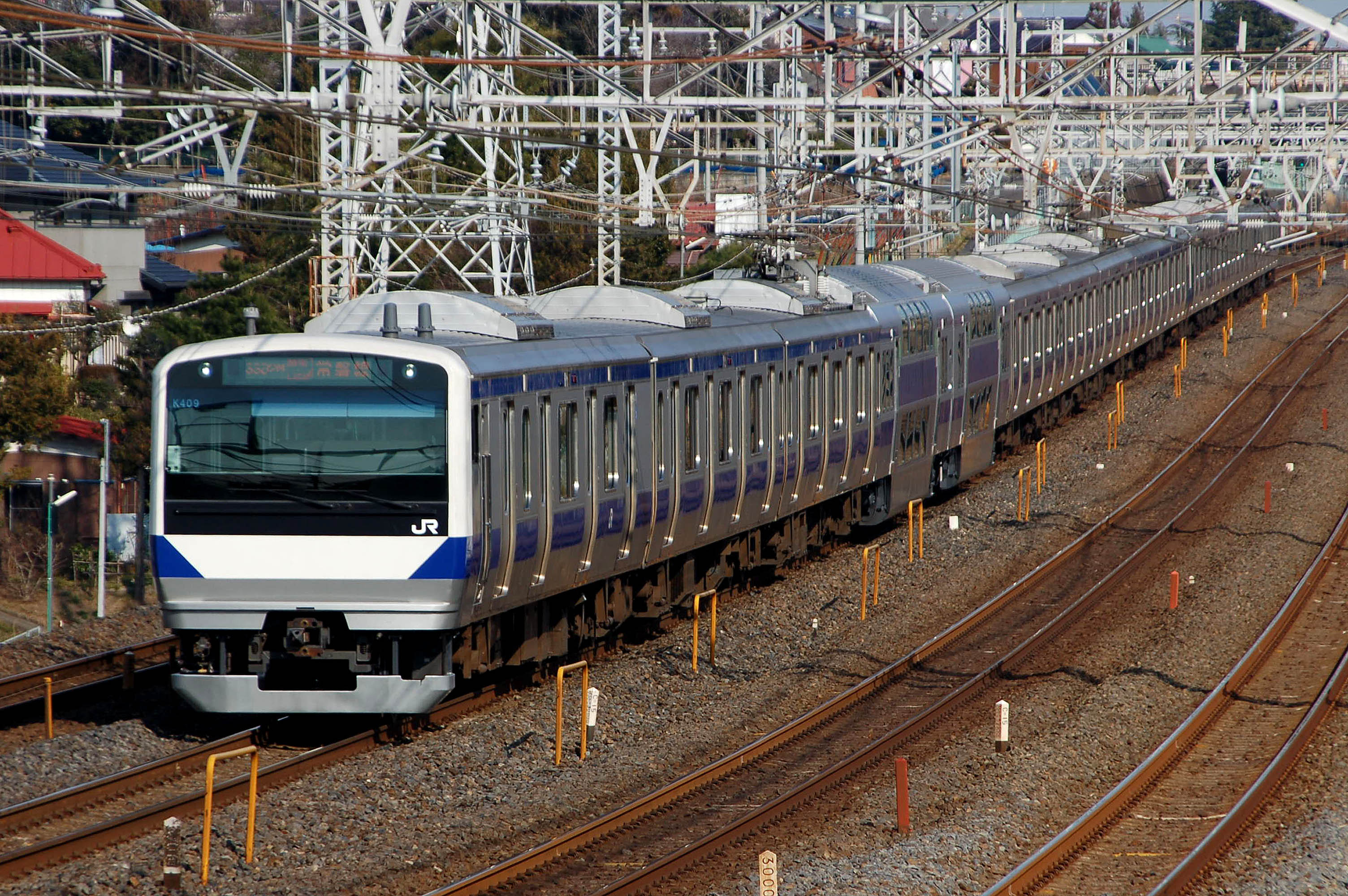 JR East E531 series electric car, Jyoban-line. 常磐線を走るJR東日本E531系。南柏-北小金間にて。